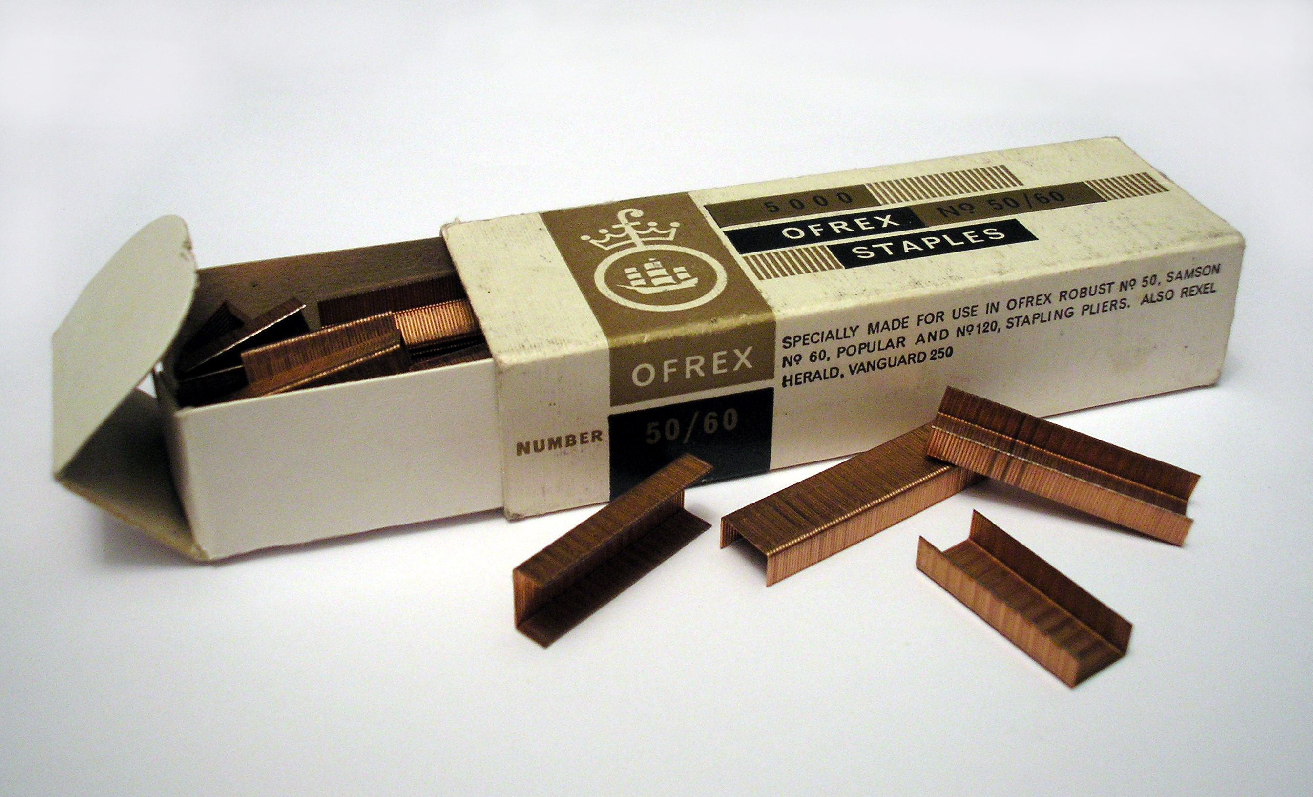 A box of staples. Ofrex No50/60 (copper).